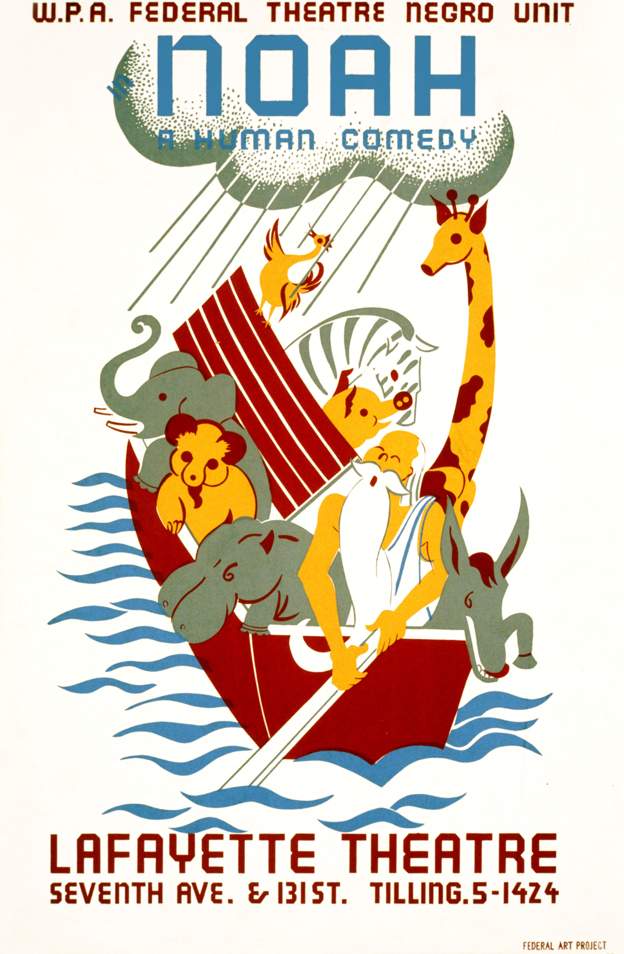 W.P.A. Federal Theatre Negro Unit in "Noah" a human comedy by Andre Obey at the Lafayette Theatre, Seventh Ave. and 131st., New York City, showing Noah in an ark filled with animals.